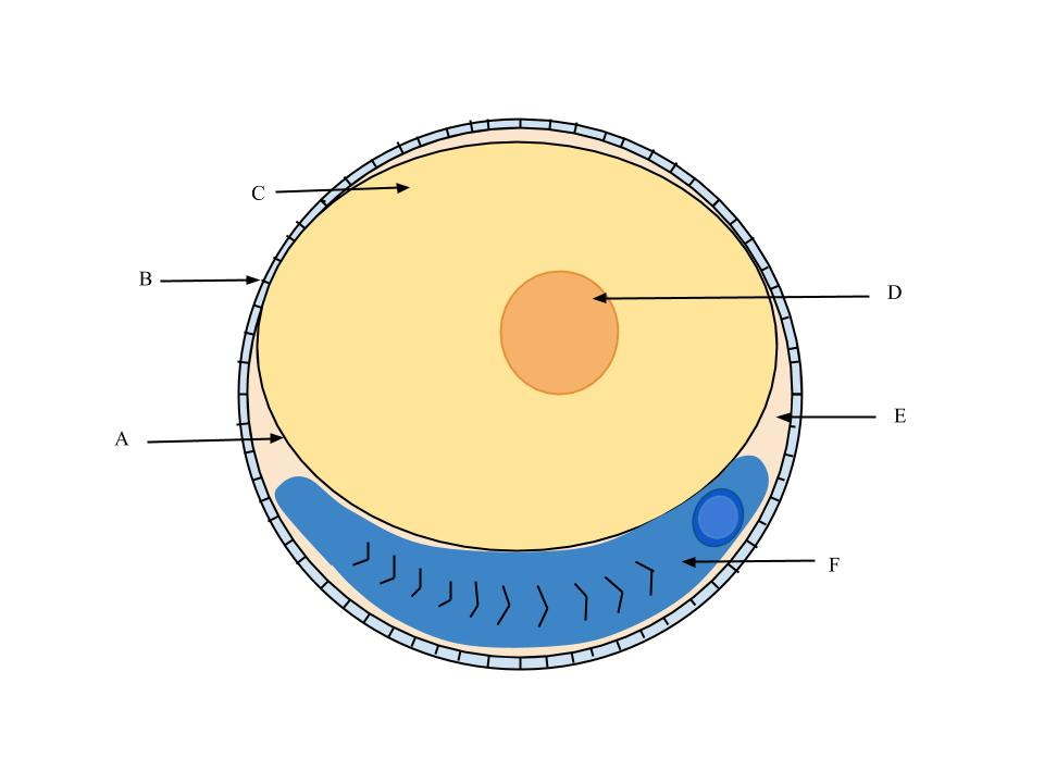 A. Vitelline B. Chorion C. Yolk D. Oil Globule E. Perivitelline Space F. Embryo